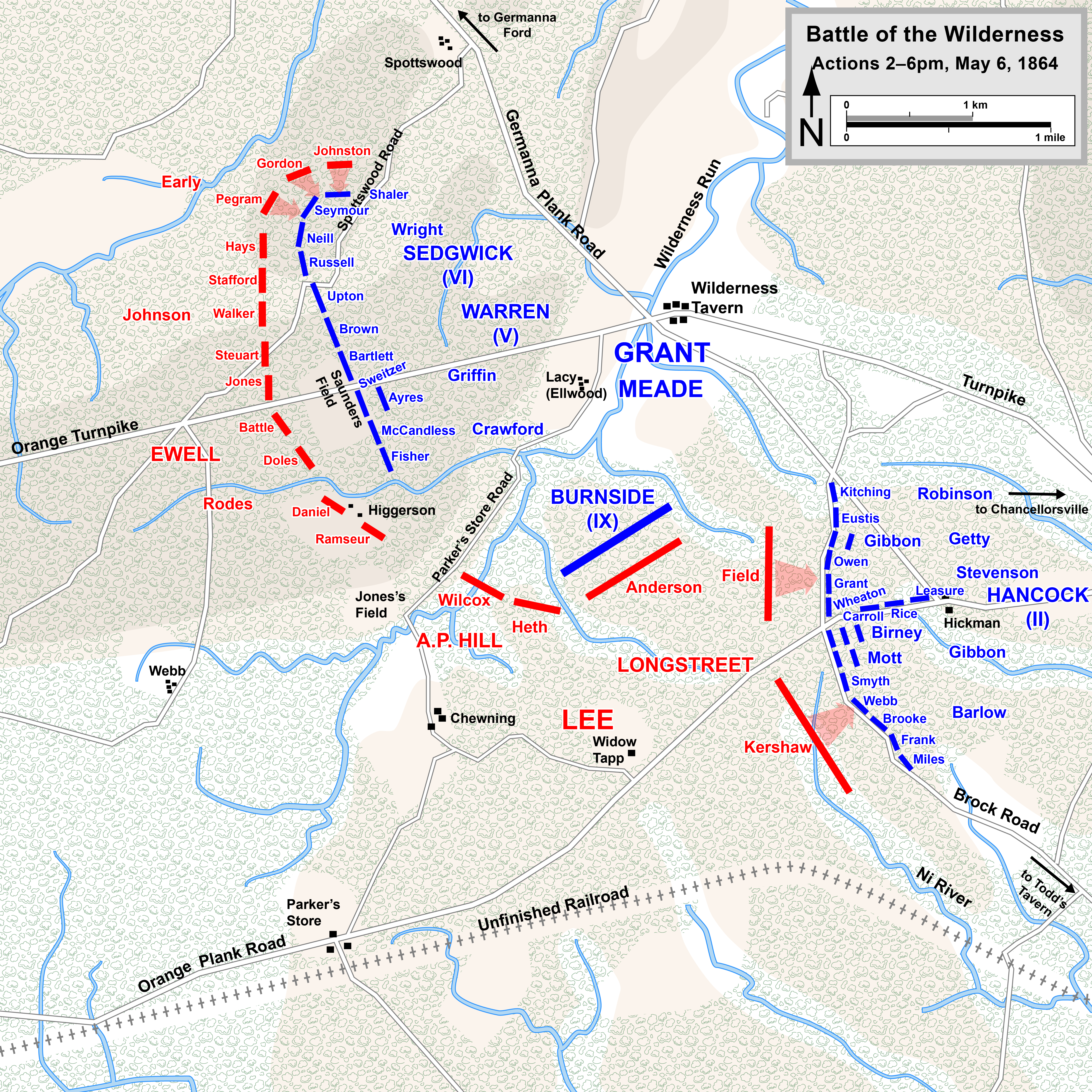 Map of a portion of the Battle of the Wilderness of the American Civil War. Drawn in Adobe Illustrator CC 2015 by Hal Jespersen. Graphic source file is available at Attribution: Map by Hal Jespersen